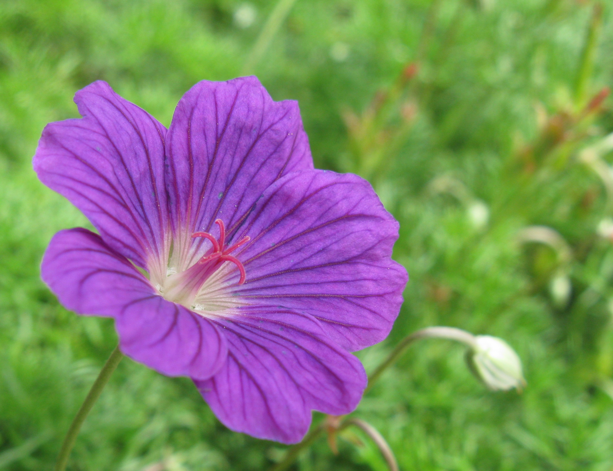 Geranium incanum, mature flower, anthers and most stamens already shed, stigma fully deployed, ready for foreign pollen